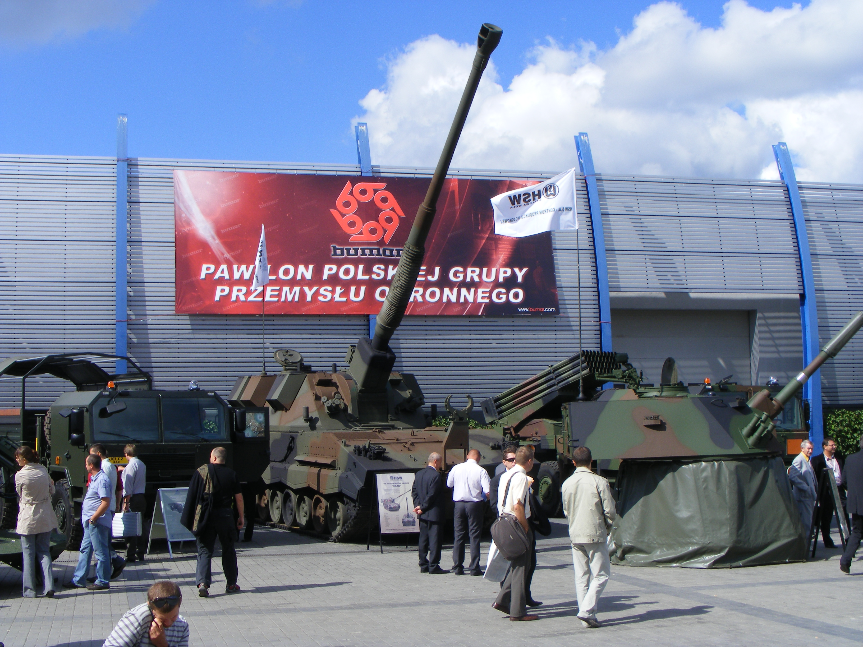 Polish mobile artillery shown at International Defence Industry Exhibition 2008 in Kielce, Poland.